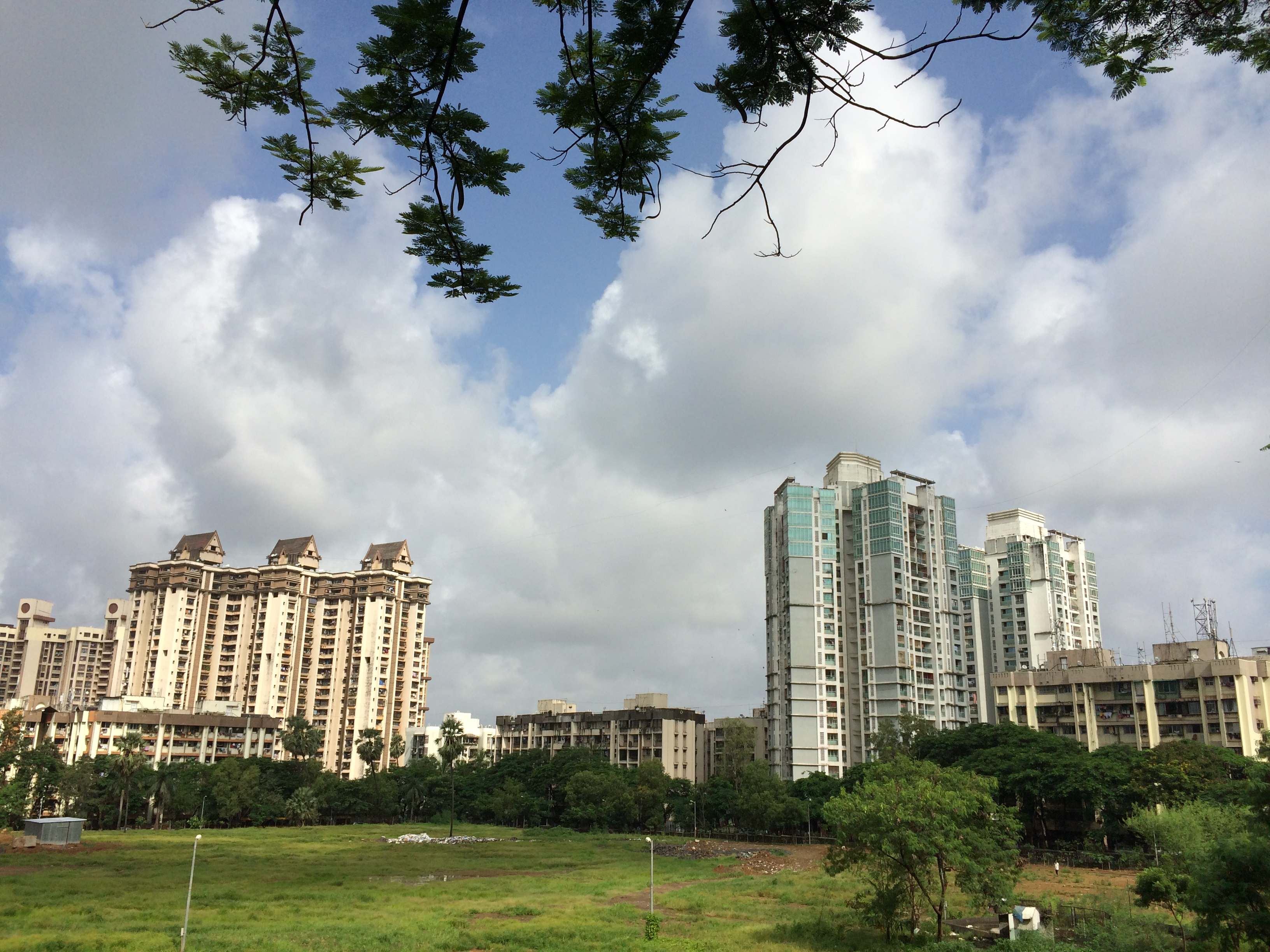 Mumbai, Kandivali Lokhandwala suburbs in 2014